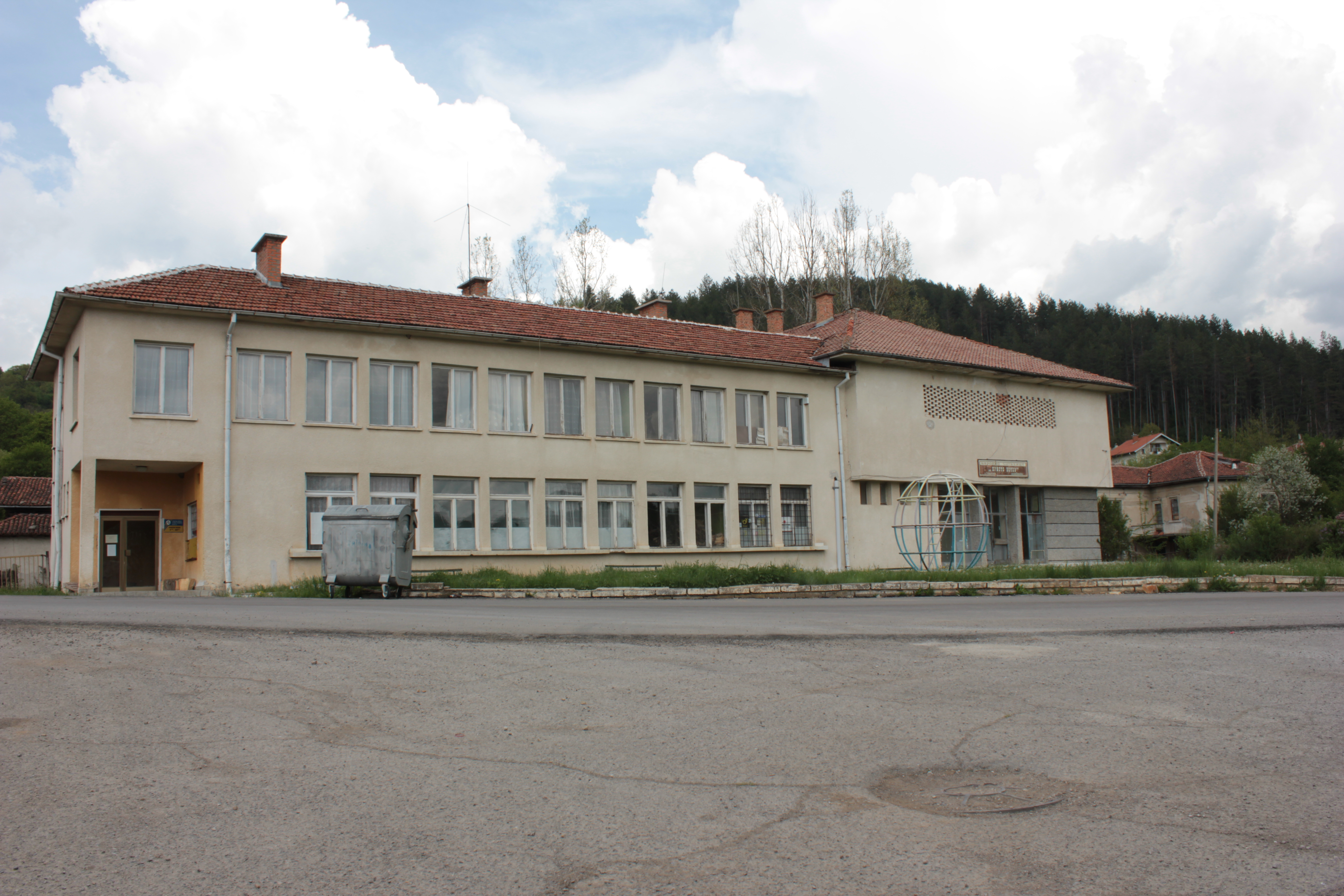 Glavanovtsi Chitalishte (Culture club)